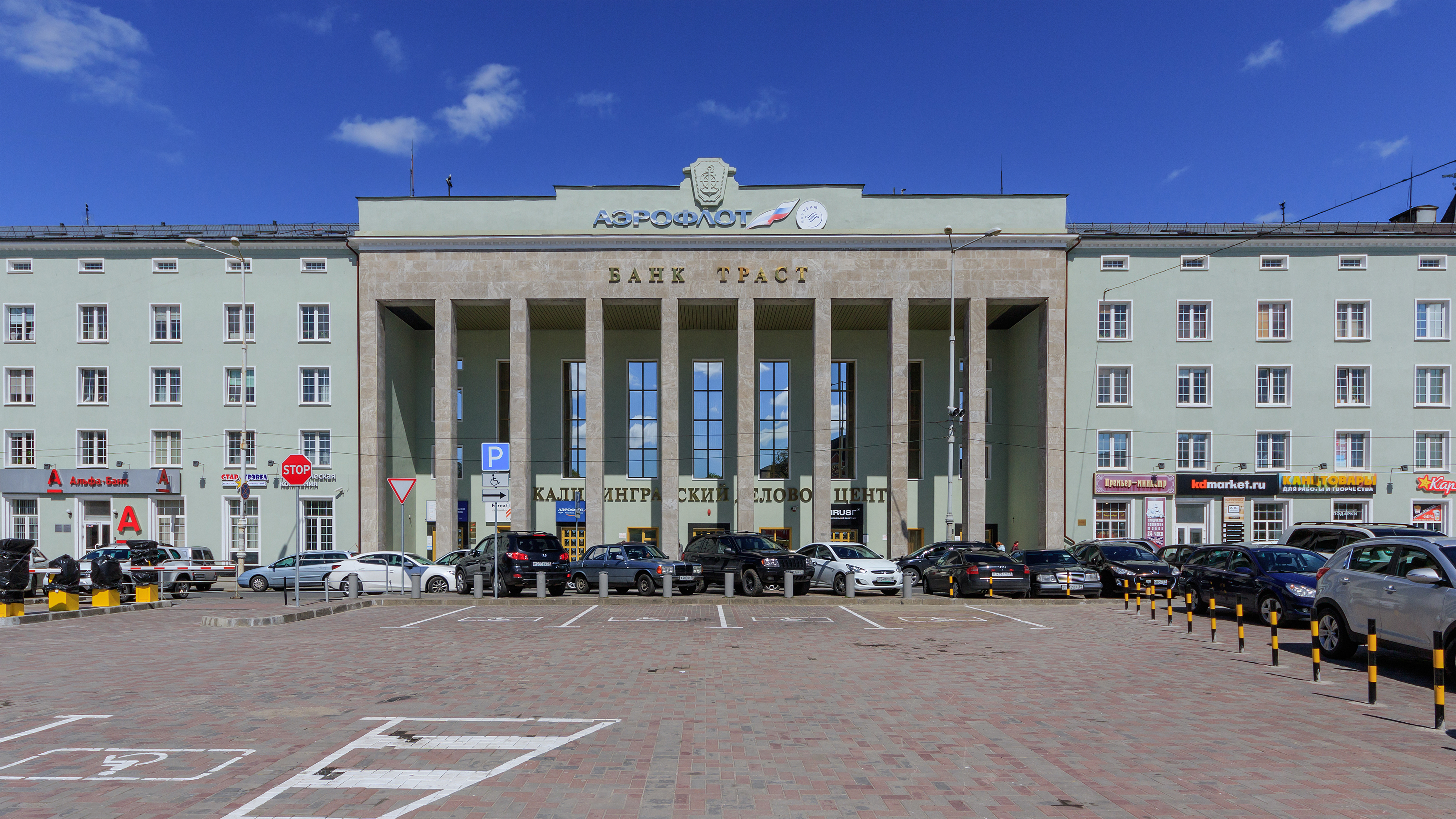 Former building of North railway station in Kaliningrad formerly Königsberg, Kaliningrad Oblast (Russia).